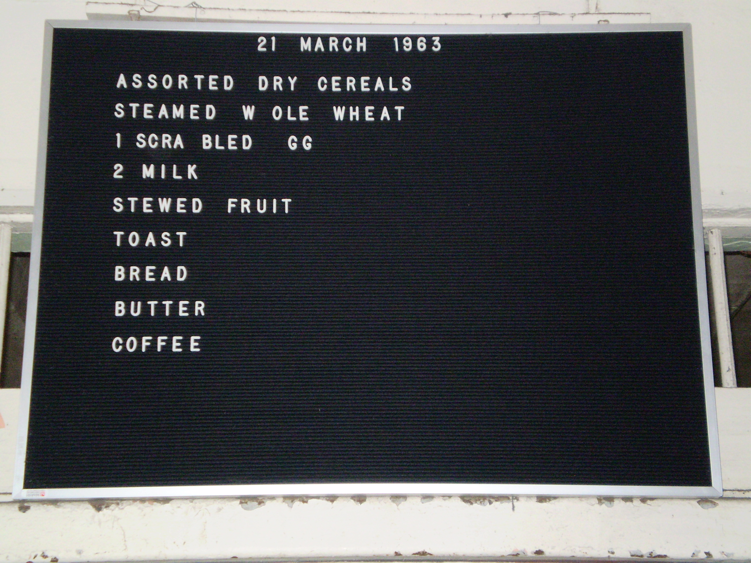 Refectory sign, in the prison on Alcatraz Island.